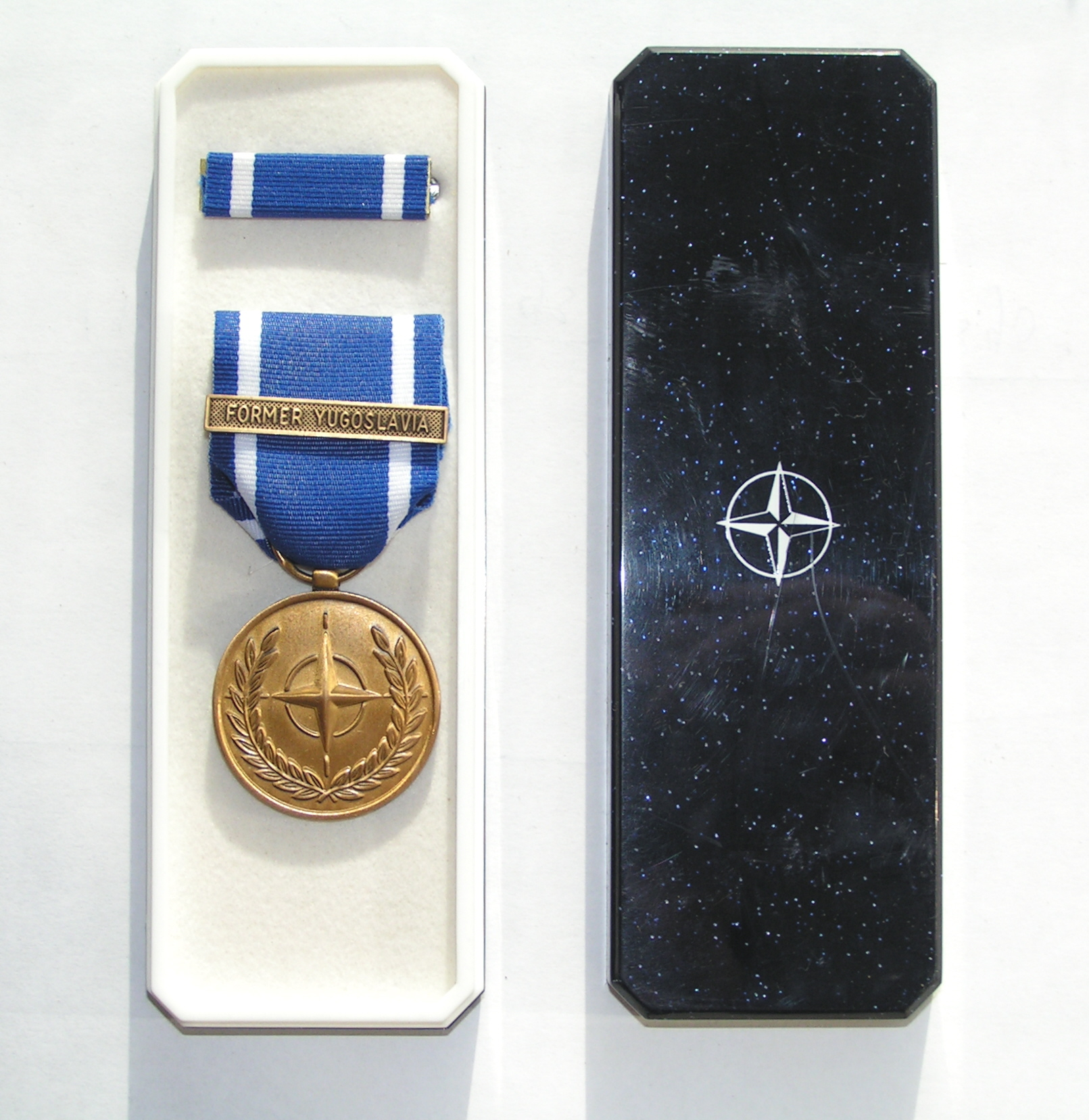 NATO medal with clasp Former Yugoslavia